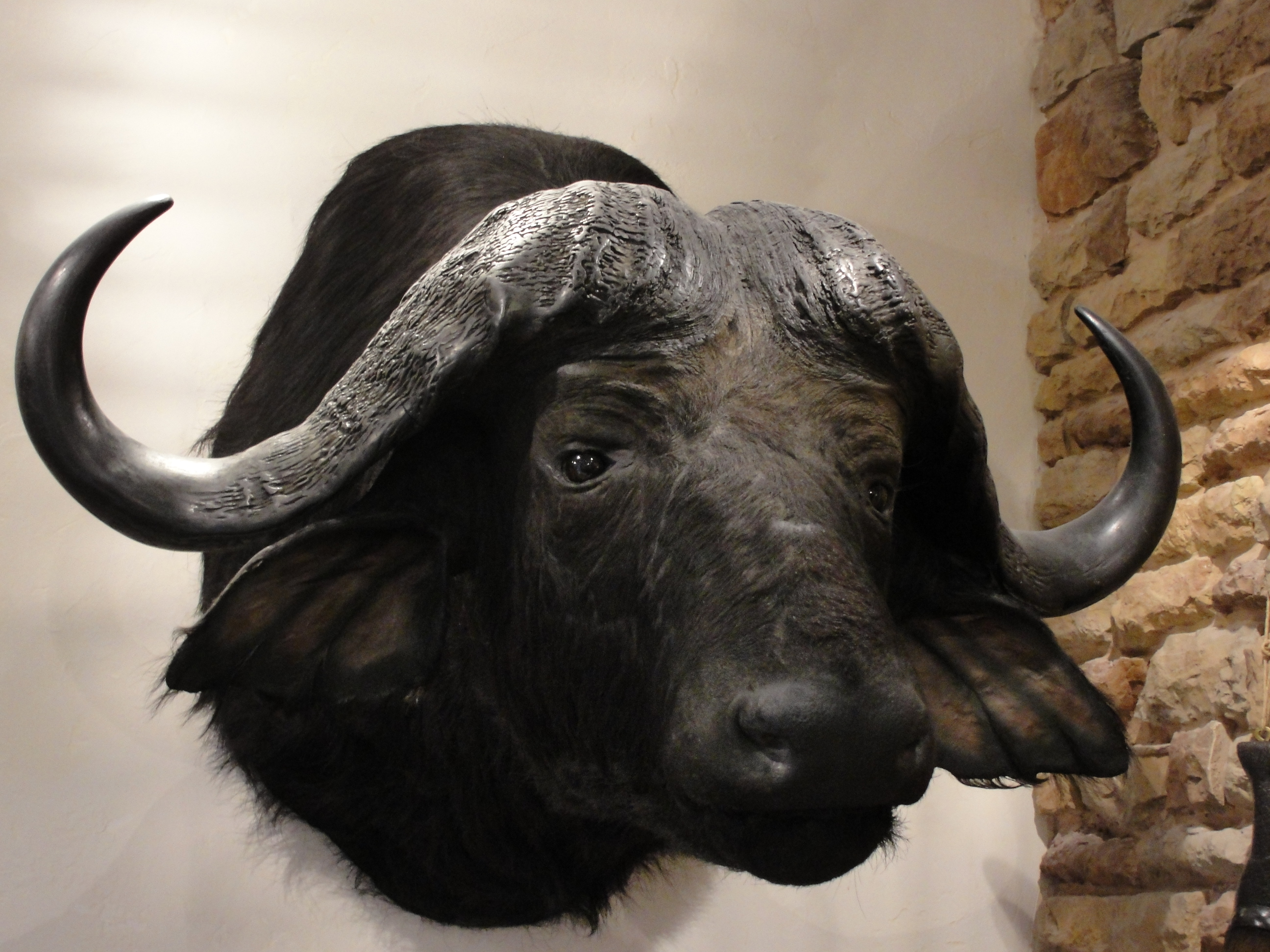 Stuffed Cape Buffalo Head